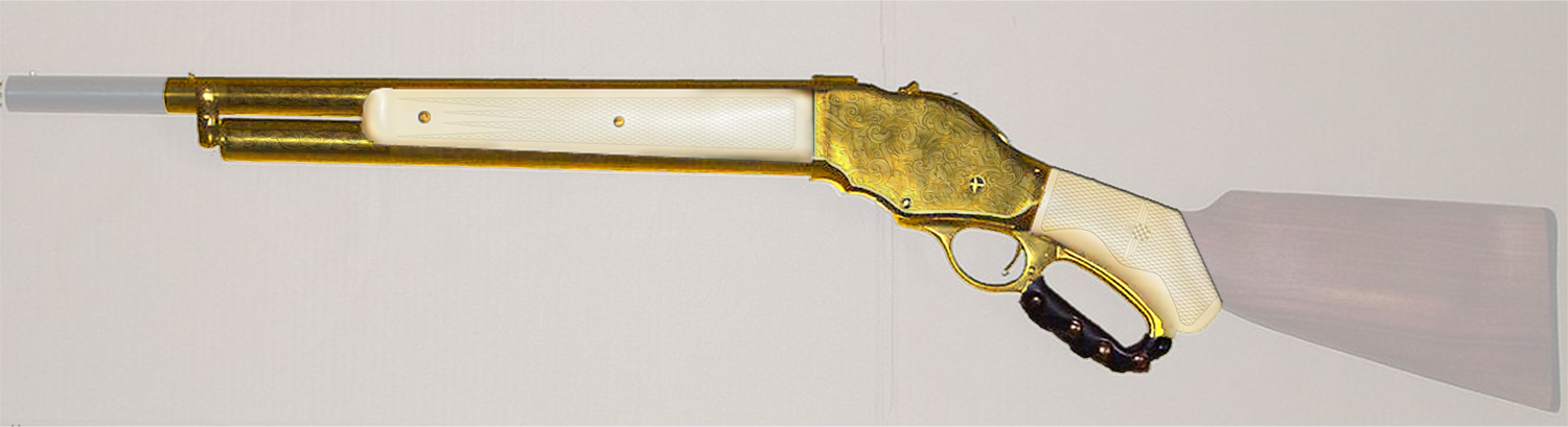 gold plated checkered ivory grip engraved sawed off winchester model 1887 lever action shotgun